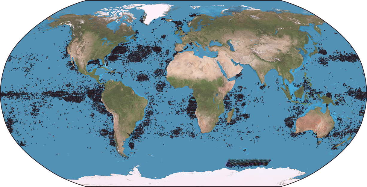 Global concentrations of sperm whales. Sperm whales can be found almost anywhere in the ocean, but concentrate in certain areas. Made with GeoCart using raw data obtained from